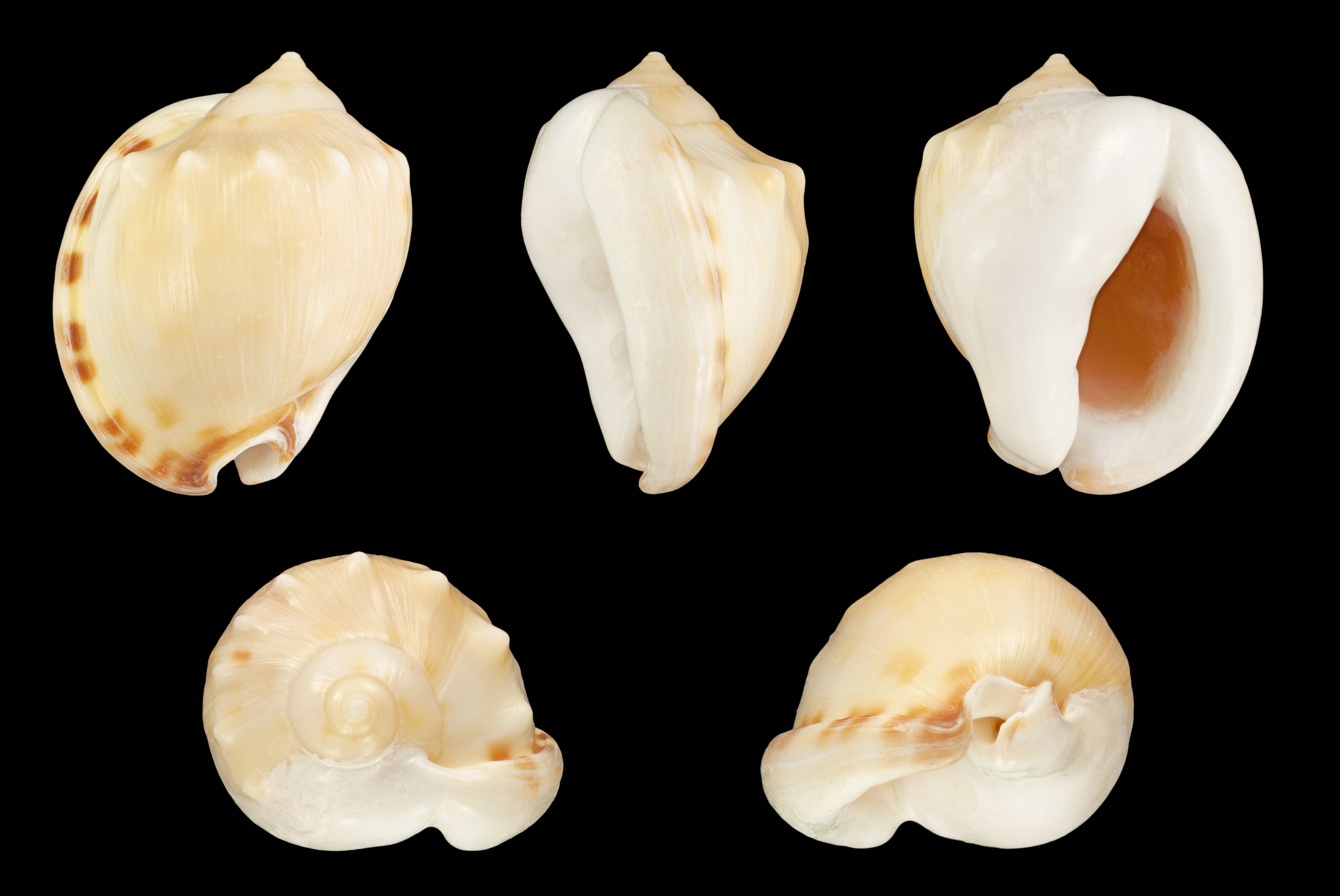 Semicassis labiata zeylanica (Lamarck, 1822); Length 4.4 cm; Originating from South Africa. Shell of own collection, therefore not geocoded.